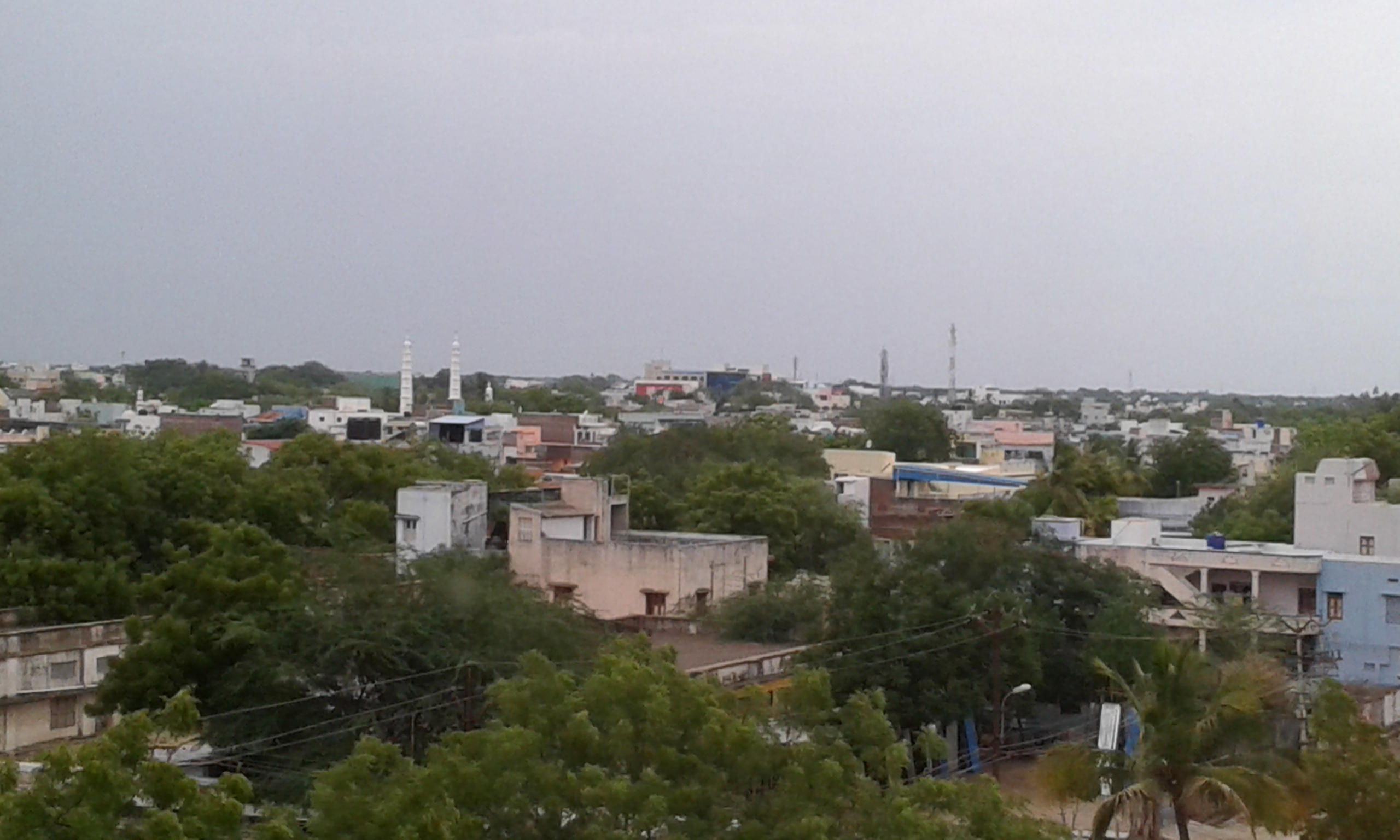 Sivakasi